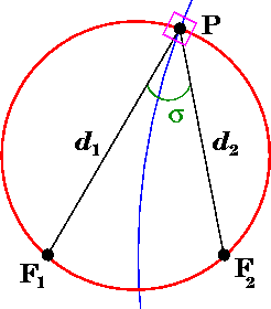 Illustration of the bipolar coordinate system. σ is the angle between the two foci and the point in question, whereas τ is the logarithm of the ratio of the distances. The corresponding σ and τ isosurfaces are shown in red and blue, respectively.